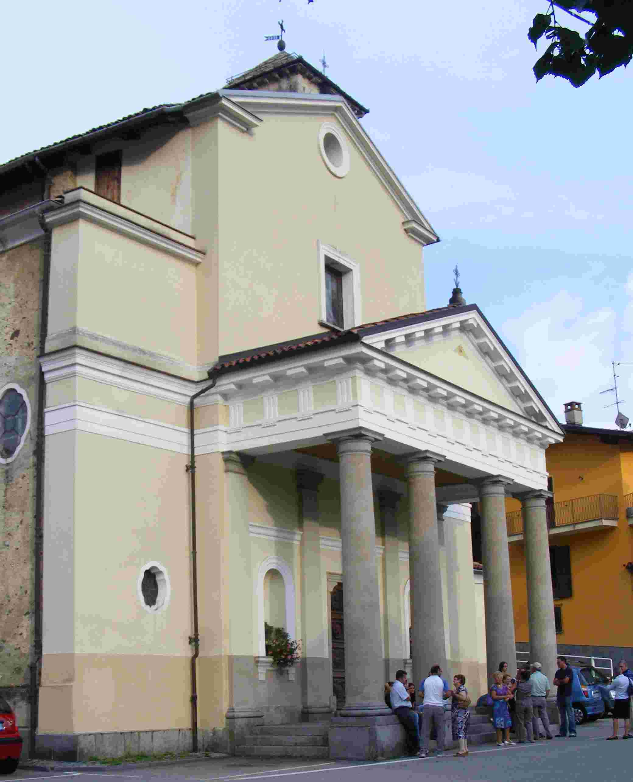 Veglio (BI, Italy): the parish church